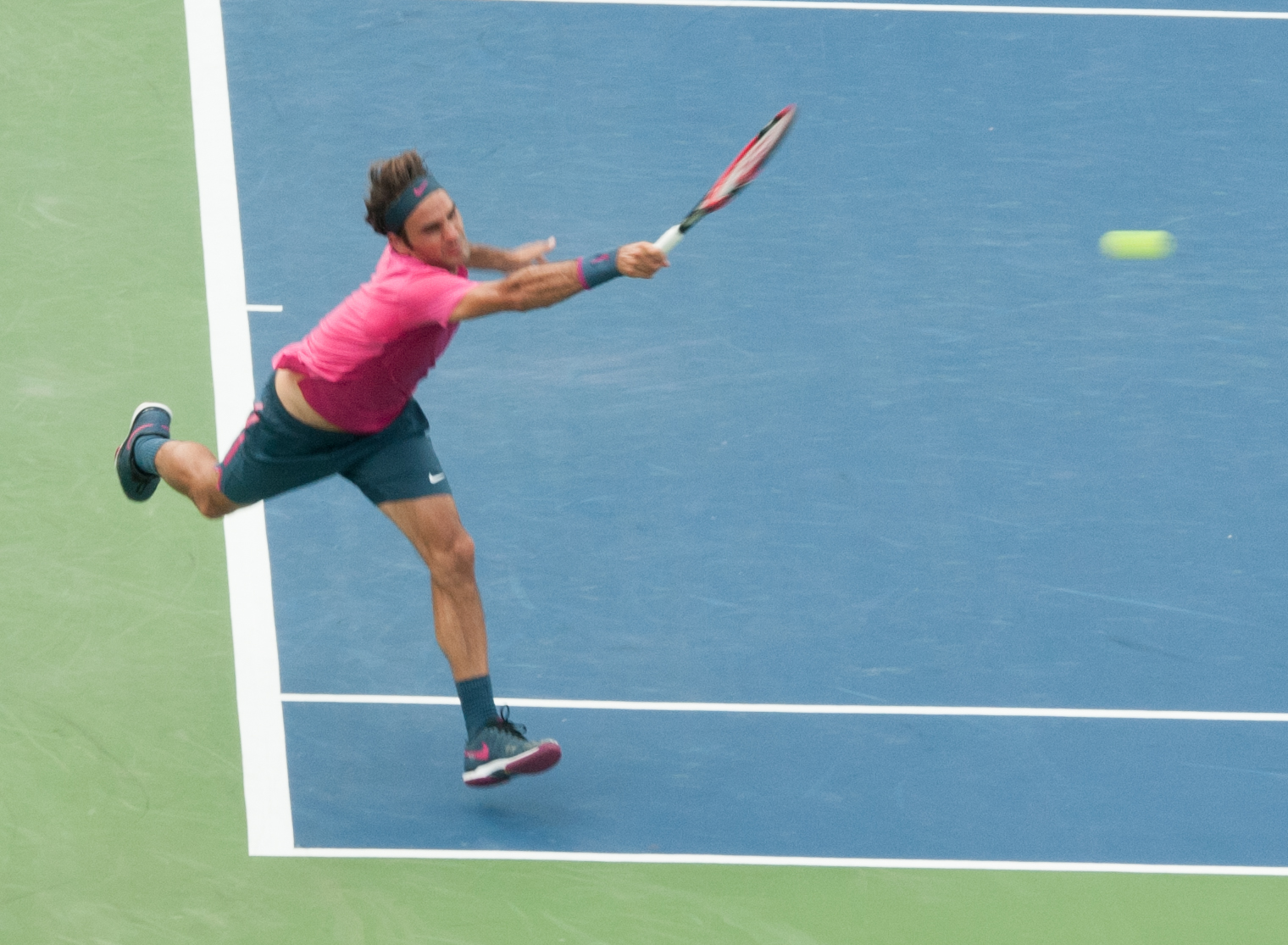 Roger Federer, final match, at the Cincinnati Masters 2015